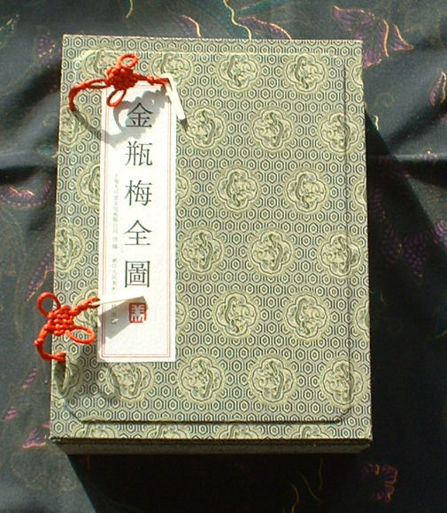 the Chinese novel Jinpingmei (金瓶梅„Jīnpíngméi)